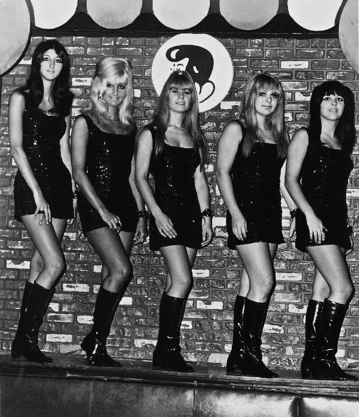 Promotional photograph of the band The Pleasure Seekers, featuring Patti Quatro, Arlene Quatro, Eileen Biddlingmeier, Diane Baker, Suzi Quatro.